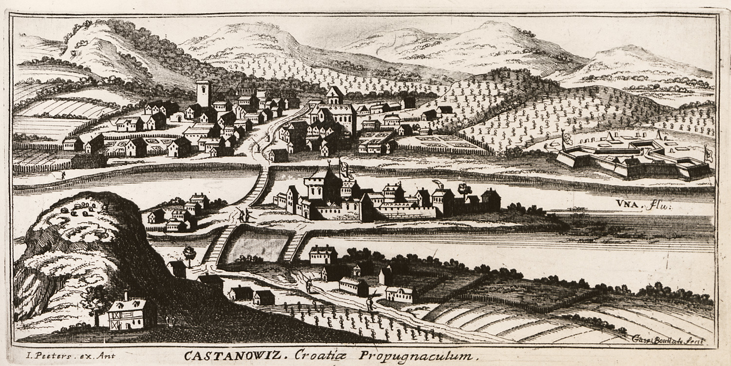 Jacob Peeters. Korte Beschryvinghe, Ende Aen-Wysinghe der Plaetsen in desfn Boeck, met hunnen teghenwoordigen Standt, pertinentelijck uytghebeldt, in Oostenryck, Antwerp, 1686